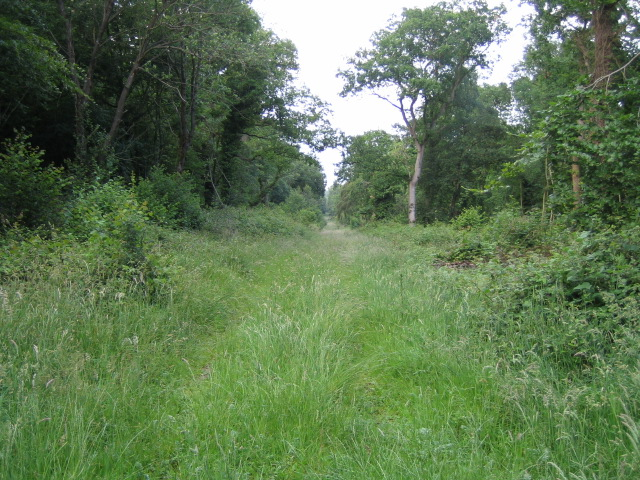 Wood, Great Ridge near Chicklade 1 This gap in the mixed deciduous trees of Limekiln Wood on the southern side of Great Ridge is most likely a woodland ride or firebreak rather than an access path for felling, as only the conifer plantations elsewhere in the Great Ridge woods are commercially forested.